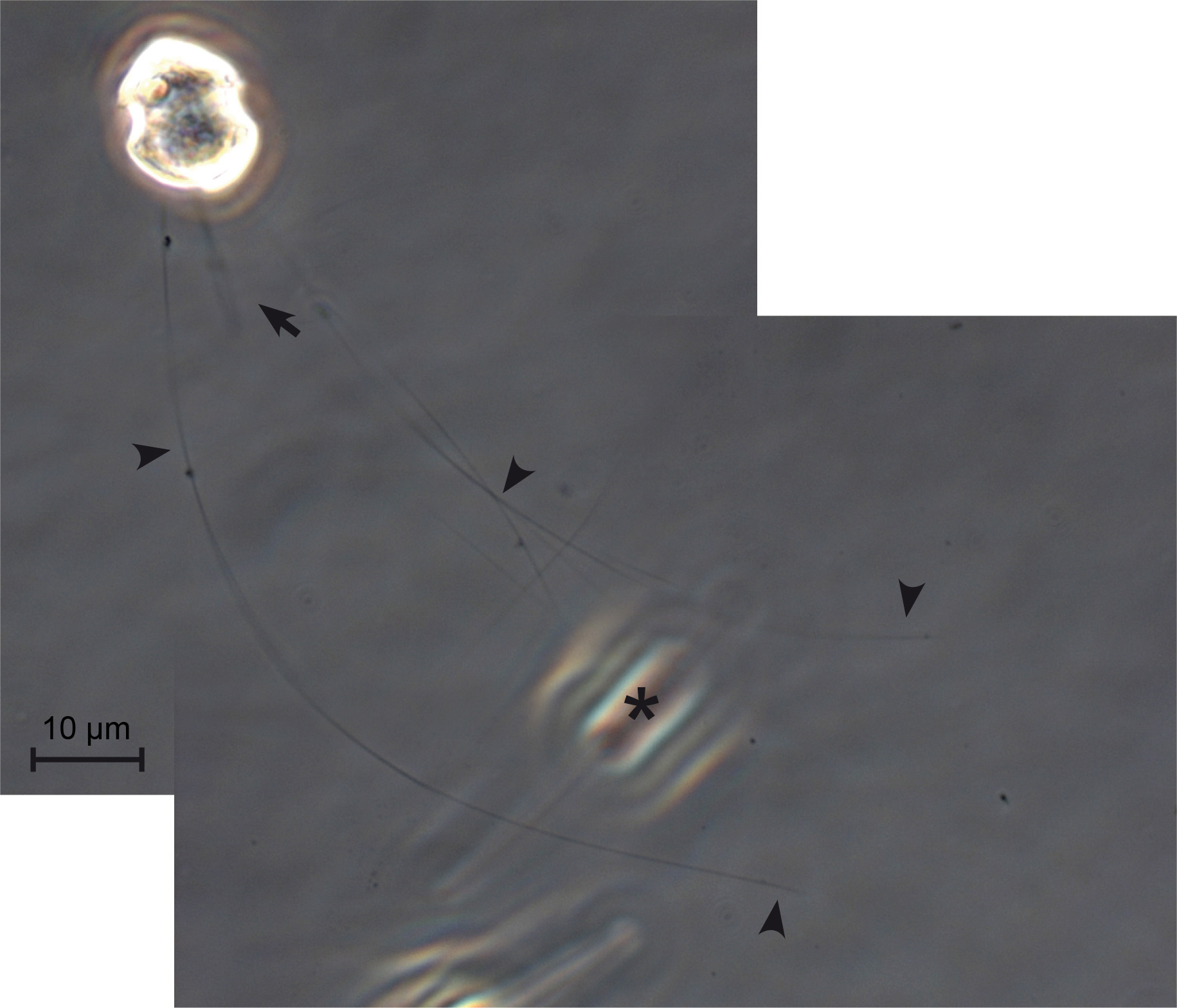 A cell of Peridiniella danica with filaments. Arrow: longitudinal flagellum, arrow heads: putative tow filaments, asterisk: cell of Cylindrotheka sp. out of focus. Image obtained by composition of two images; light microscopy with phase contrast.